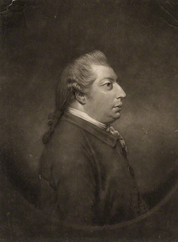 Portrait of Thomas Norris (1741–1790), English musician.